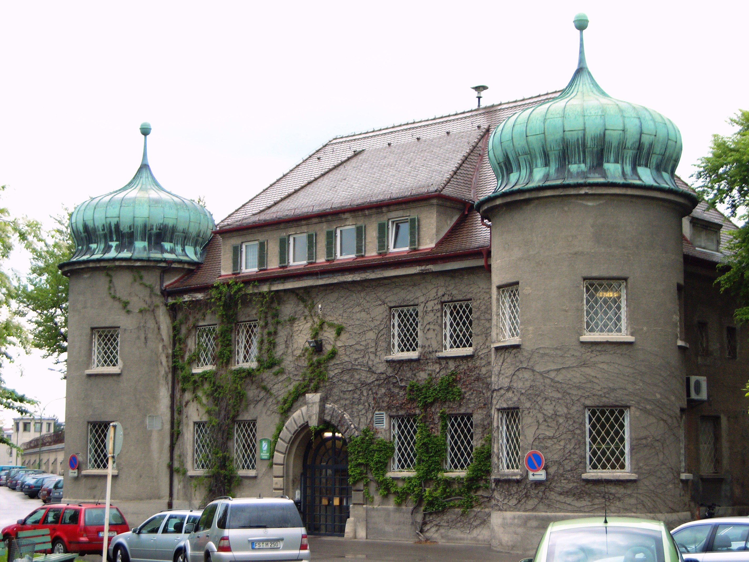 Landsberg Prison, Entrance.